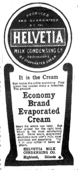 1903 newspaper ad for Helvetia condensed milk.